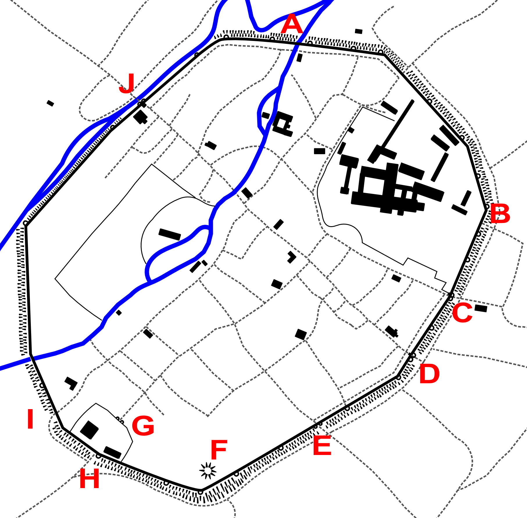 Map of Canterbury c.1500, after Bennett, Frere and Stow (1982), p.25